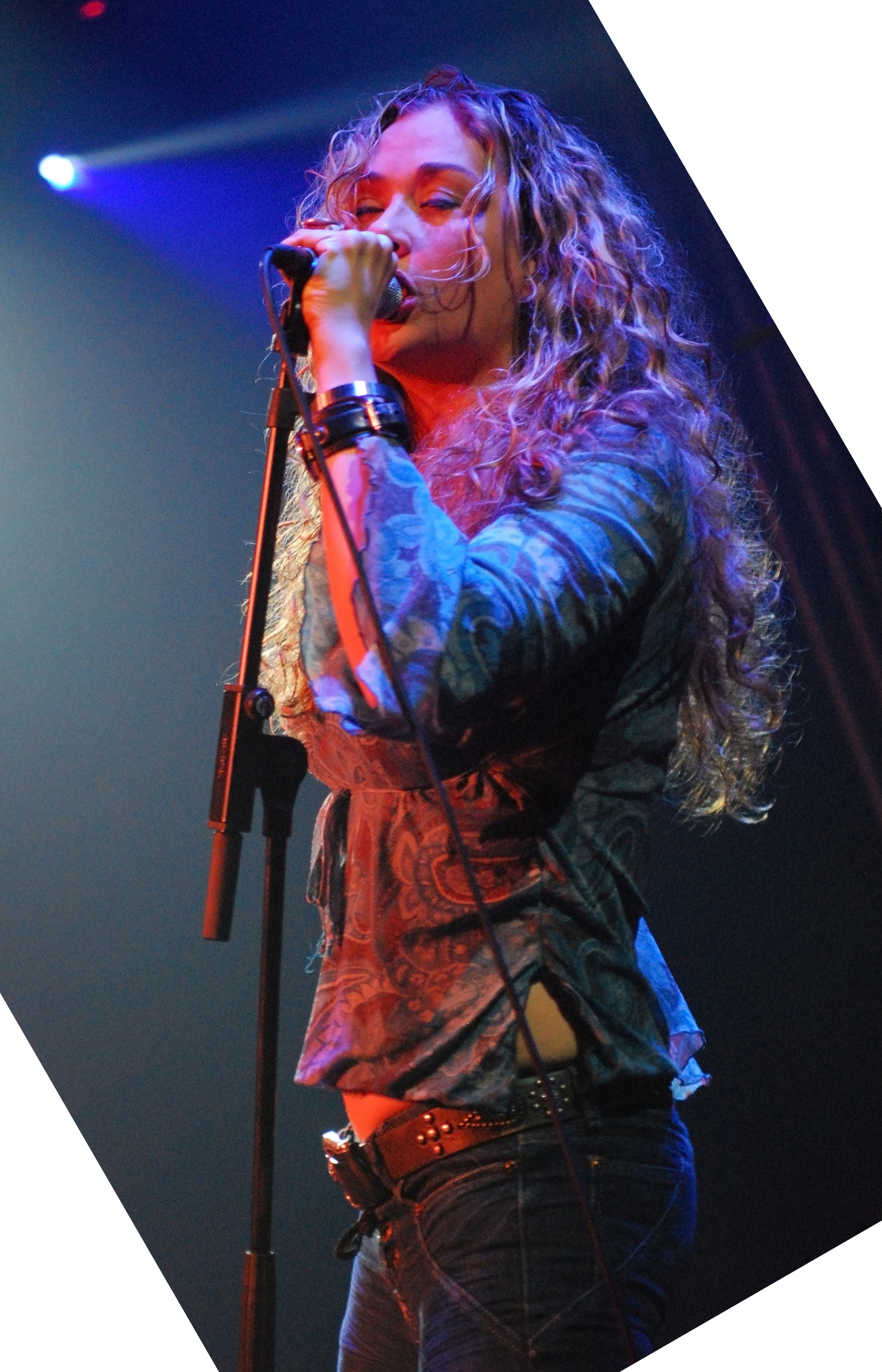 Dana Fuchs performing on November 13, 2008 Zoetermeer Holland